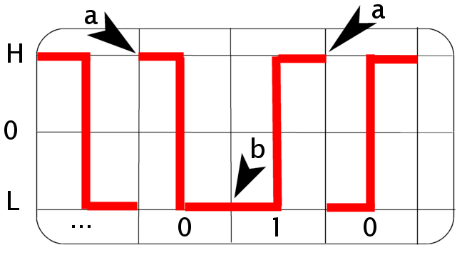 Differential Manchester encoding